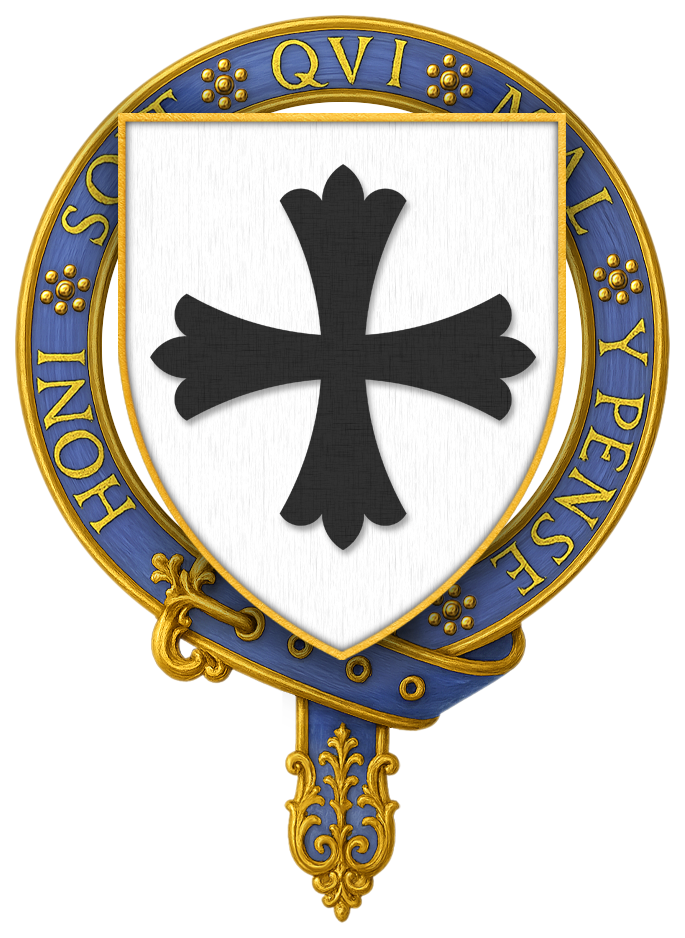 Coat of Arms of Sir Thomas Banastre, KG Based on the stall plate for Sir Thomas still in place in the twenty-sixth stall, on the north side of St. George's chapel.